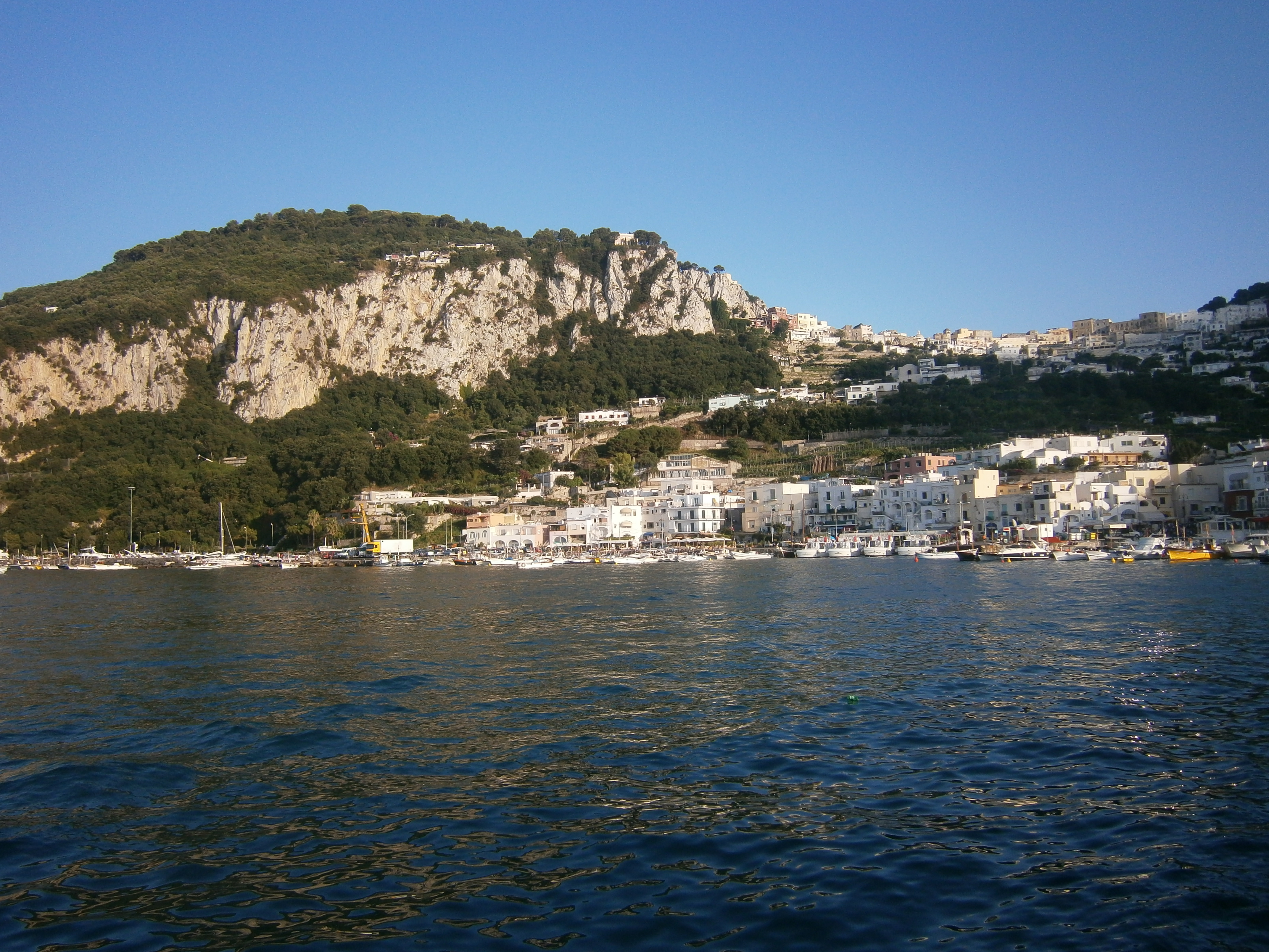 Capri